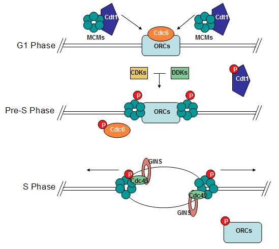 Diagram of the formation of the pre-replicative complex. Mcm 2-7 complex loads onto DNA at replication origins during G1 and unwinds DNA ahead of replicative polymerases. Cdc6 and Cdt1 bring Mcm complexes to replication origins. CDK/DDK-dependent phosphorylation of pre-replicative proteins leads to replisome assembly and origin firing. Cdc6 and Cdt1 are no longer required and are removed from the nucleus or degraded. Mcms and associated proteins, GINS and Cdc45, unwind DNA to expose template DNA. At this point replisome assembly is completed and replication in initiated. "P" represents phosphorylation.